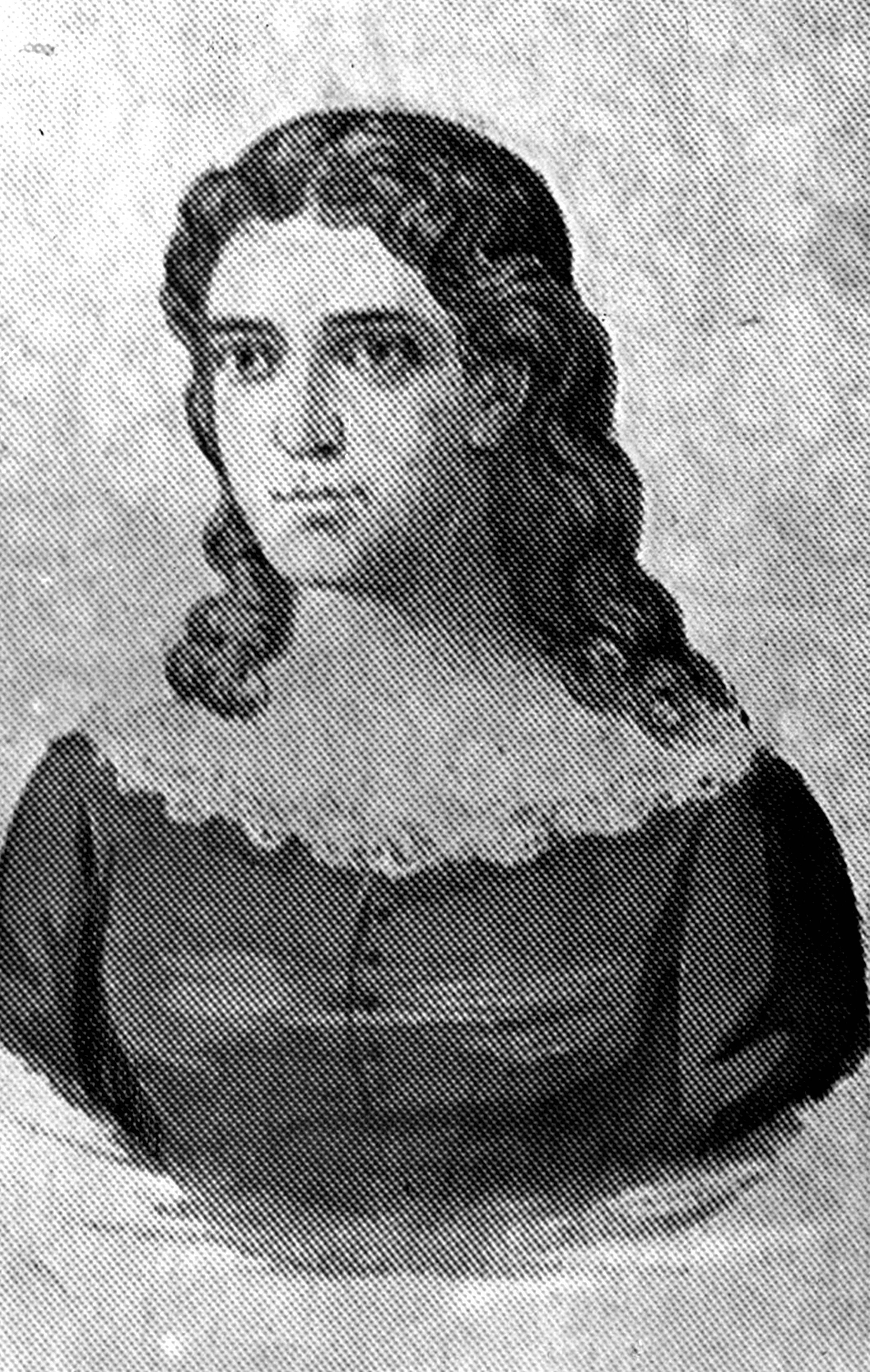 Lithography of Dolores Veintimilla de Galindo, an ecuadorian poet and writer